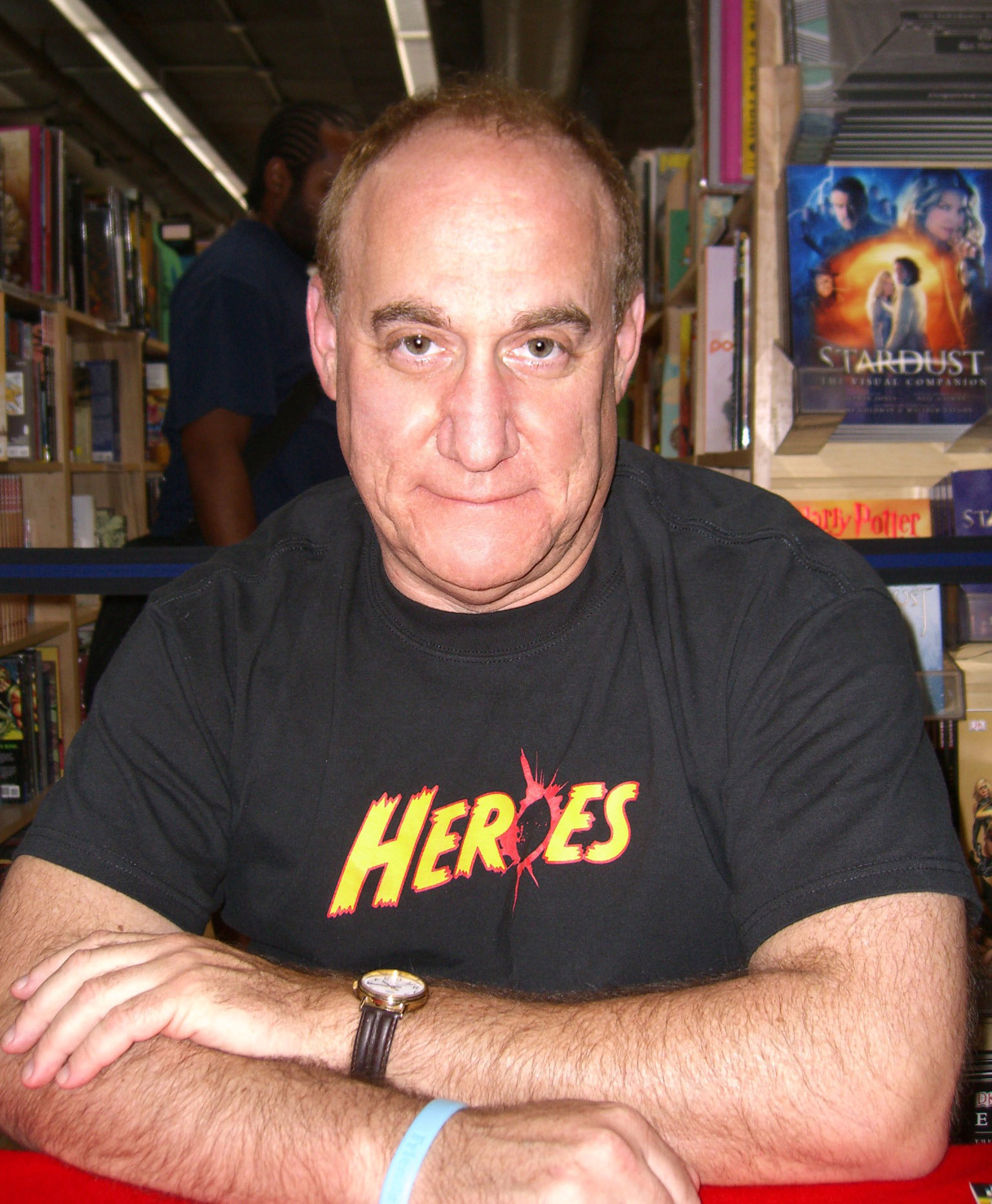 Comic book creator Jeph Loeb at Midtown Comics in Manhattan, August 28, 2007. This photo was created by Luigi Novi. It is not in the public domain, and use of this file outside of the licensing terms is a copyright violation.